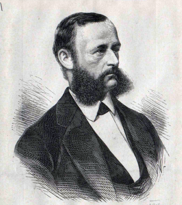 Depicted person: Emil Naumann